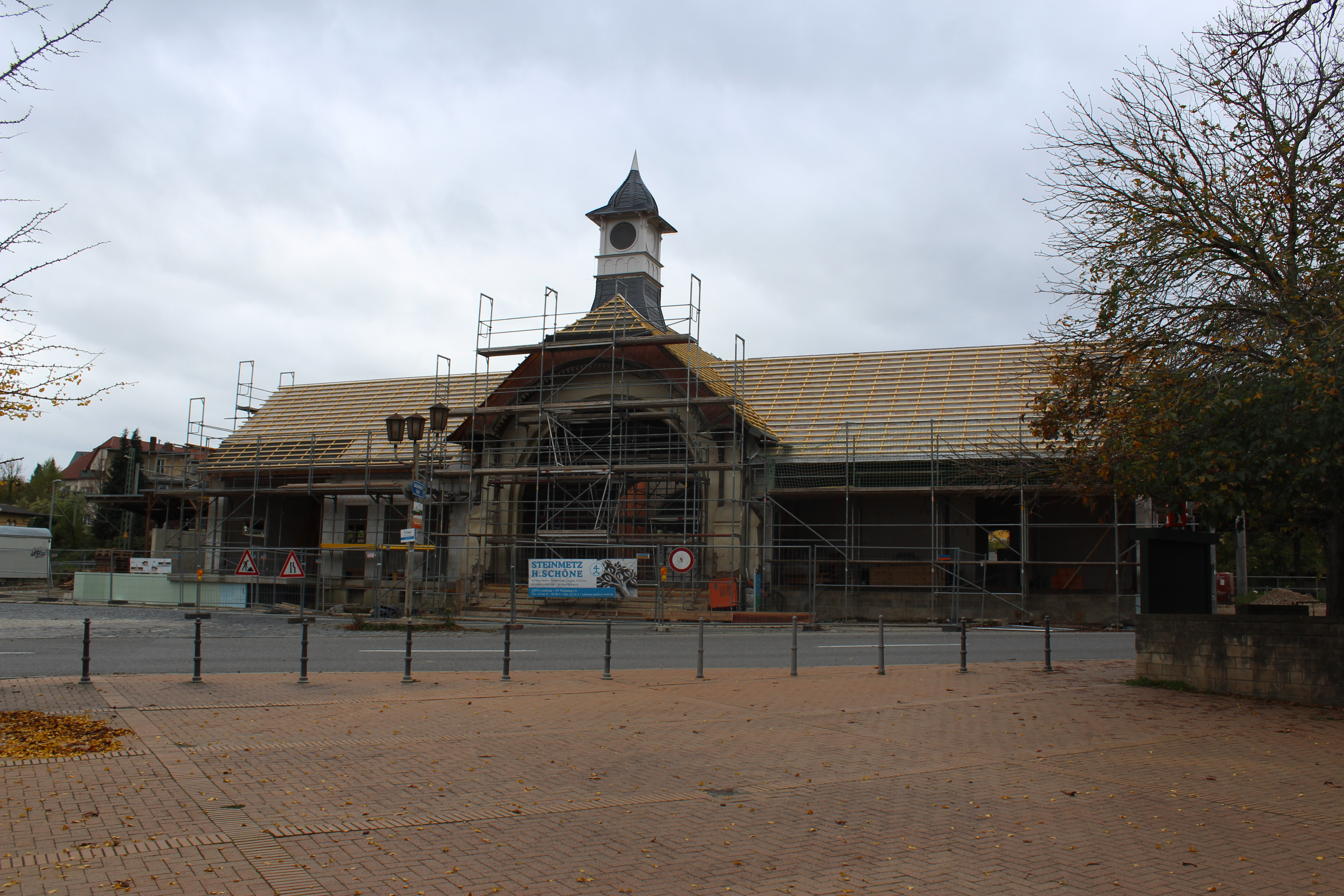 train station Bad Kösen, station building